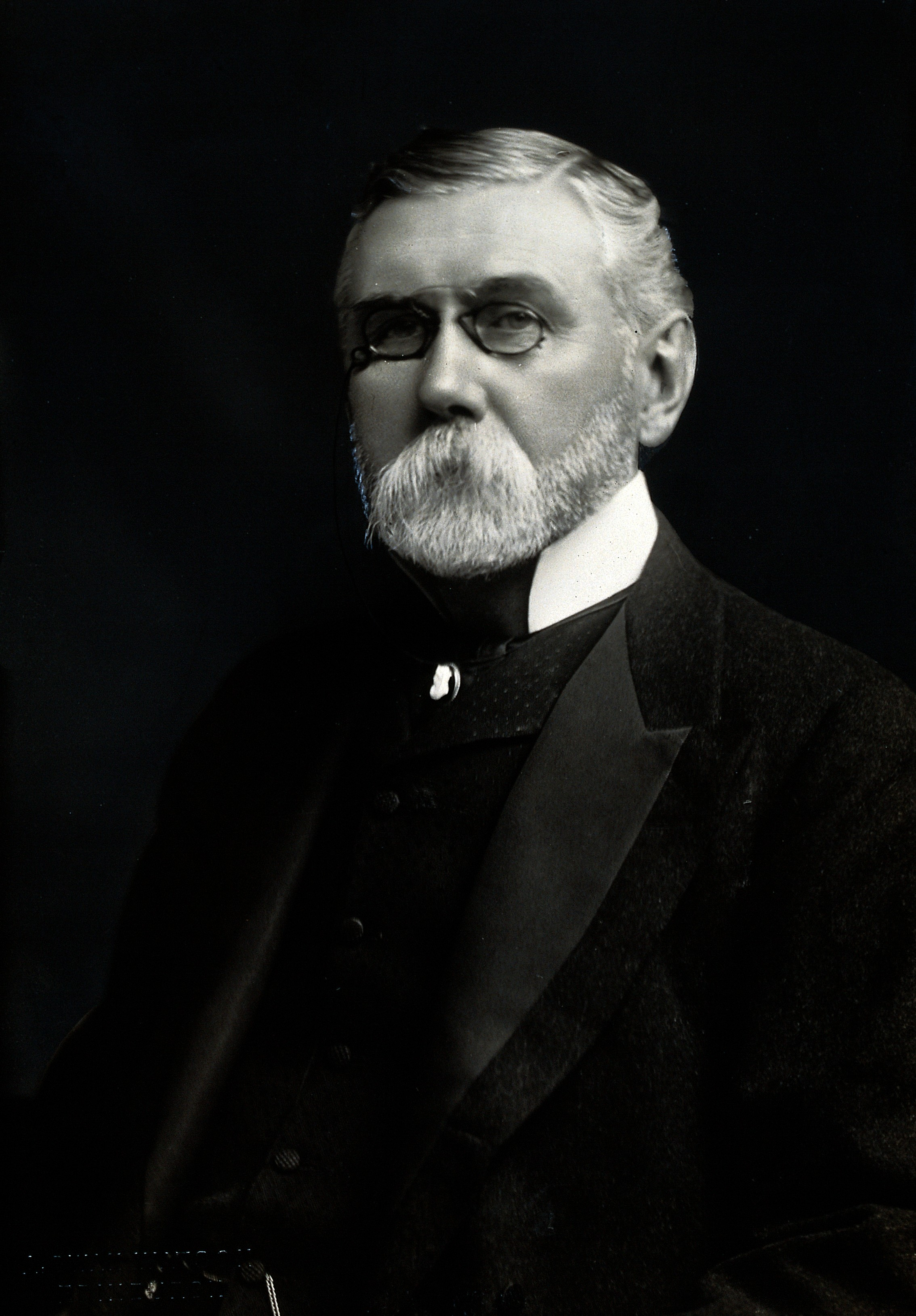 John Halliday Croom. Photograph by A. Swan Watson. Iconographic Collections Keywords: portrait photographs